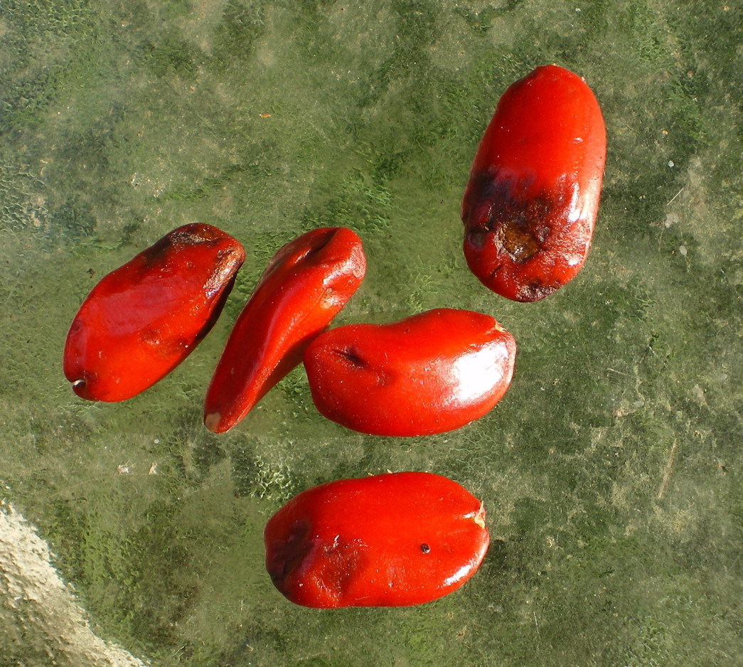 Photo by Alan P. Van Dyke. Used with permission.